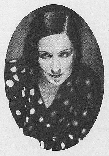 Finnish theatre personality, early 1930s.